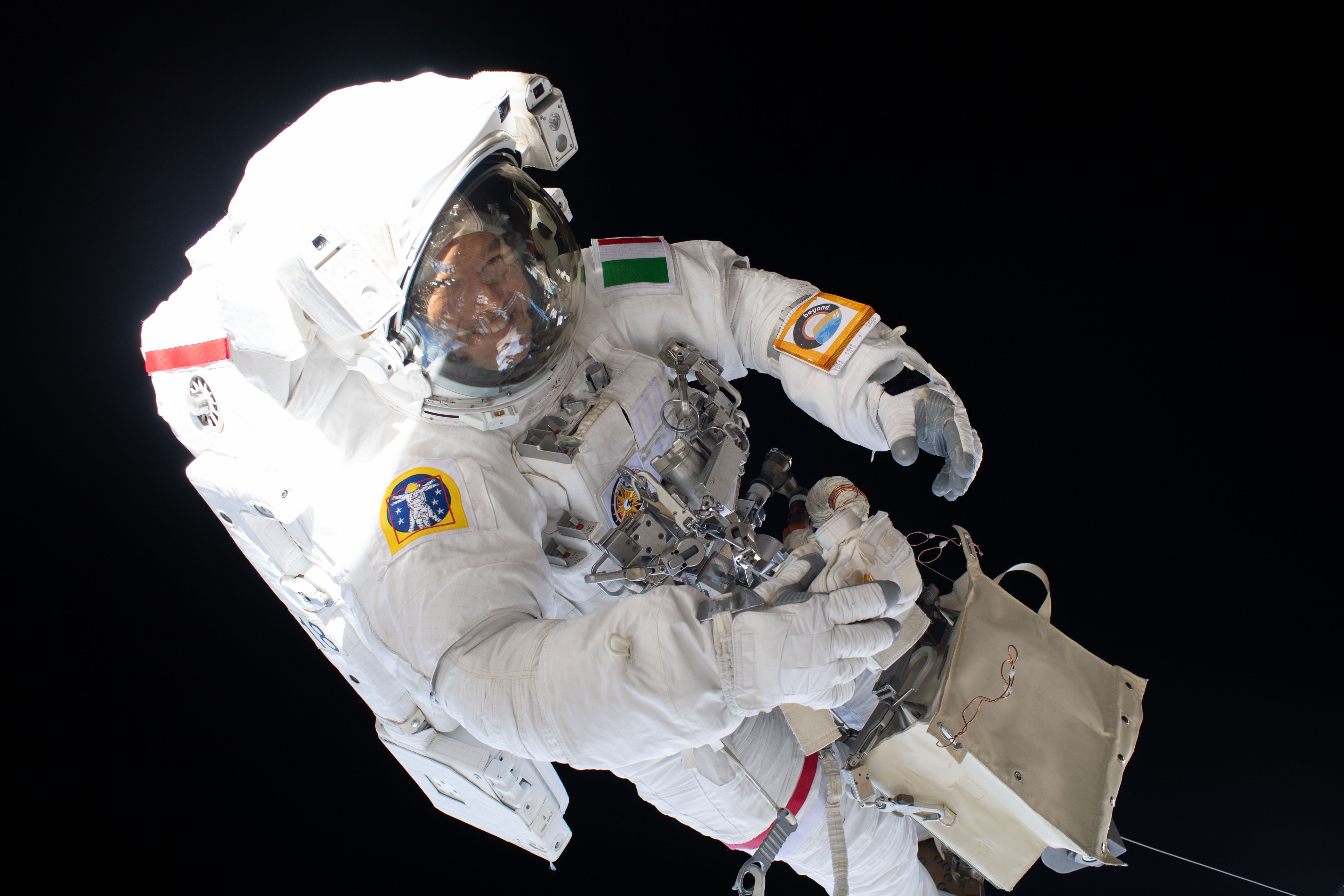 ESA (European Space Agency) astronaut Luca Parmitano is pictured attached to the Canadarm2 robotic arm during the first spacewalk to repair the Alpha Magnetic Spectrometer, the International Space Station's cosmic particle detector.